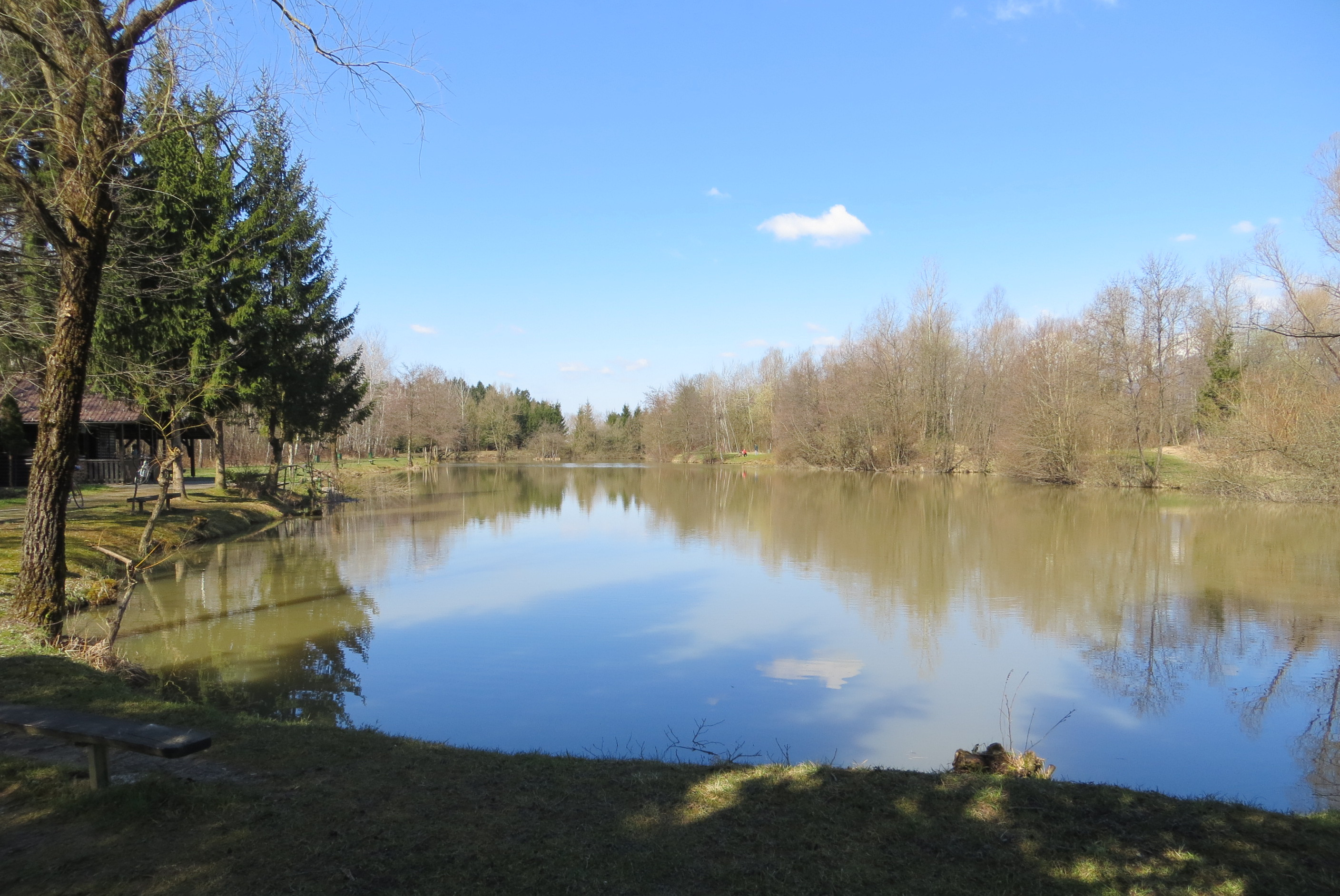 Lahovče Pond (Sln. ribnik Lahovče, Lahovški ribnik) in Lahovče, Municipality of Cerklje na Gorenjskem, Slovenia